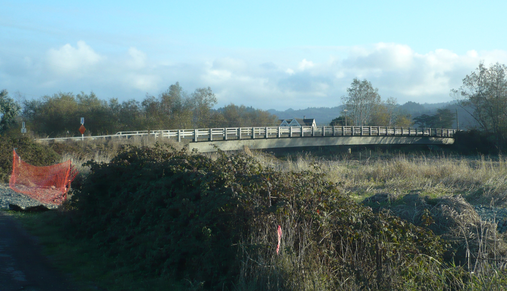 The Dillon Road / Valley Flower Creamery bridge over the Salt River in Humboldt County, California was built in 1994. At present the Salt River is dry in the photo and vegetation has been removed to permit excavation of a new channel.